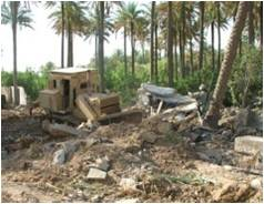 A D7 Bulldozer from C Co., 14th Eng. Bn. pushes through the rubble of the building where Zarqawi was killed, as Soldiers search for items of intelligence value.